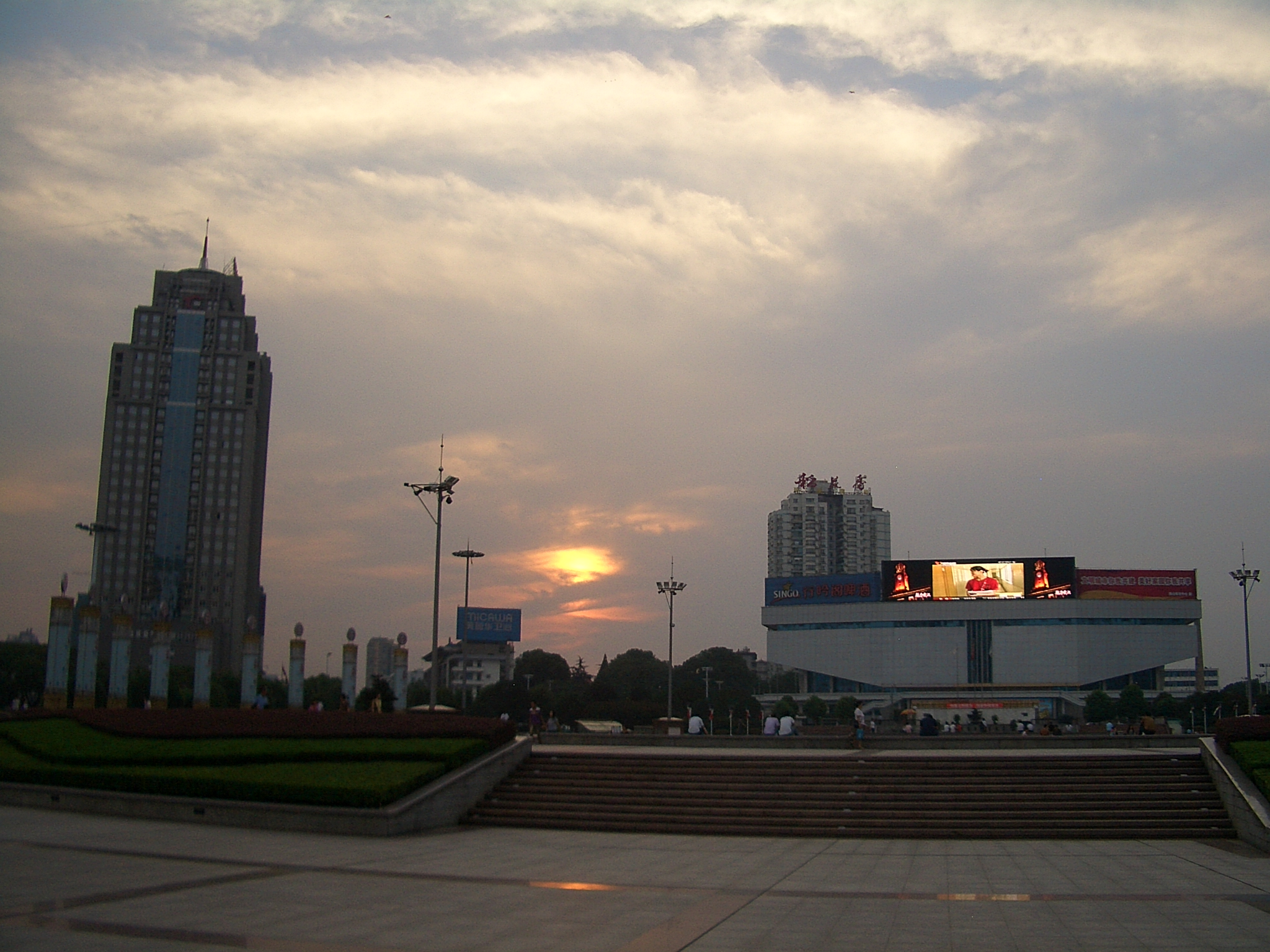 Hongshan Square, one of the main squares of Wuhan